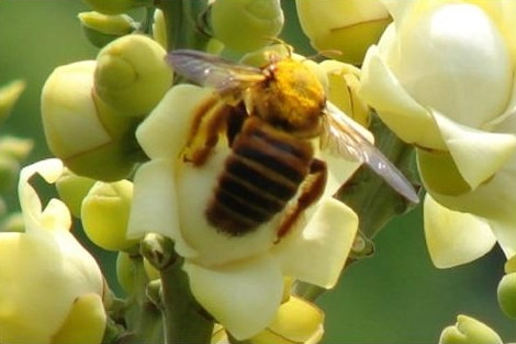 Xylocopa frontalis male: Approach to flowers of Brazil nut (Bertholletia excelsa) by distinct bee species in a commercial cultivation in the county of Itacoatiara, state of Amazonas, Brazil, 2007